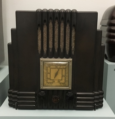 Amalgamated Wireless Australasia R29 Fisk Radiolette (1935) radio. Manufactured by Amalgamated Wireless Australasia in New South Wales, Australia. Bakelite. On display at SFO Museum "On The Radio" exhibition in 2018.